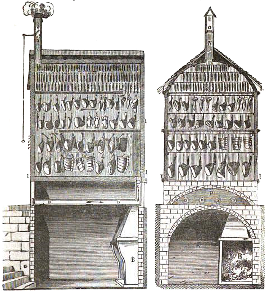 Description of a place for smoking meat